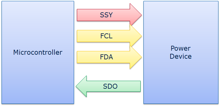 Basic signaling scheme of the Microsecond Bus: downstream synchronous TTL level (red), TTL or LVDS (yellow) and slow upstream TTL (green)